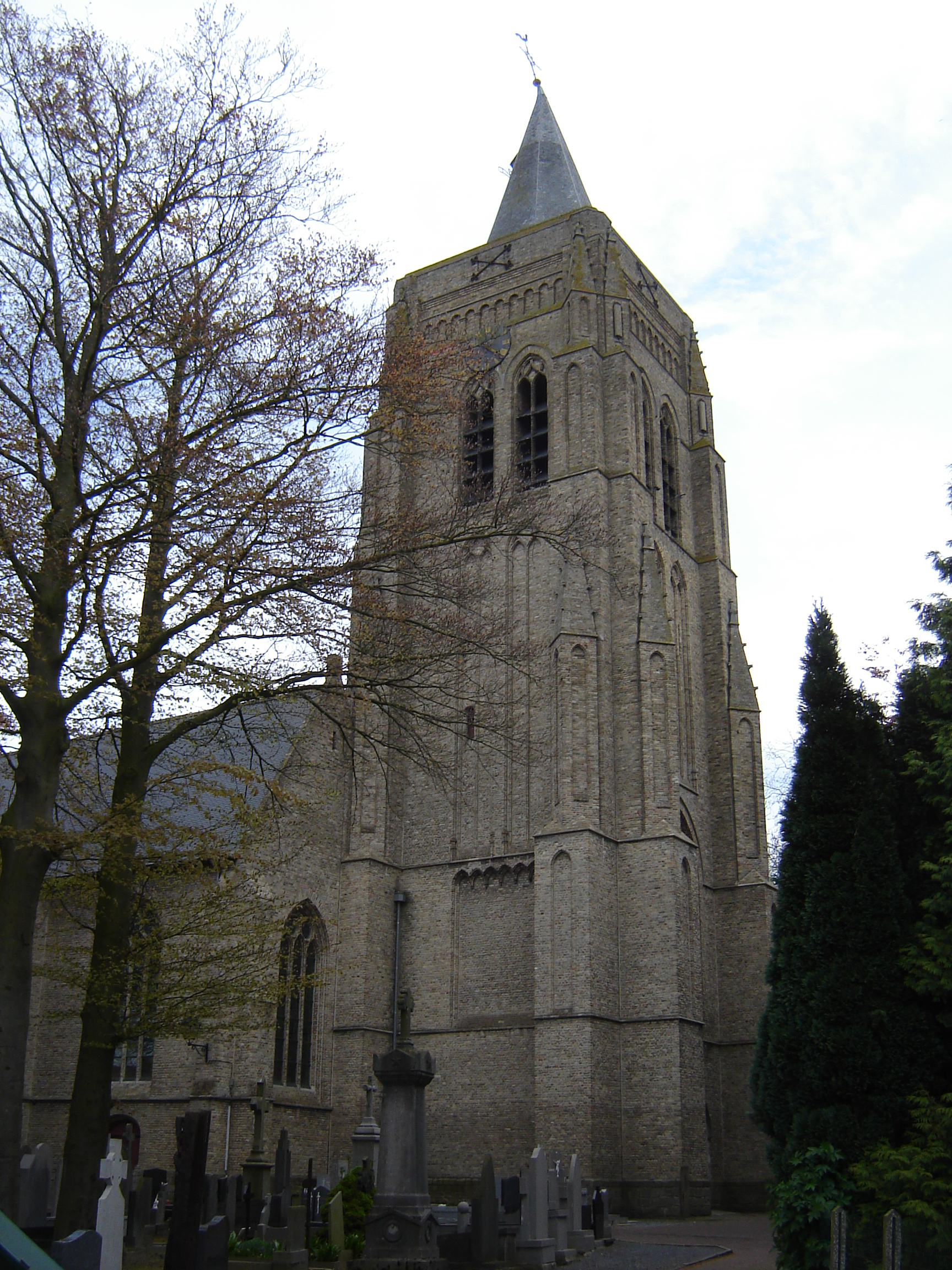 Church of Saint Bavo in Merkem. Merkem, Houthulst, West Flanders, Belgium